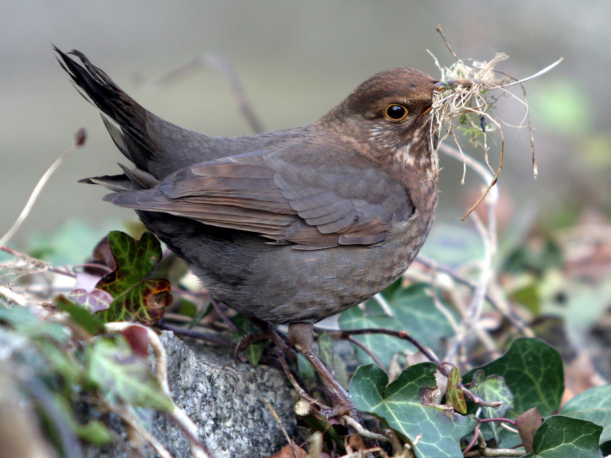 Female black bird with nesting material